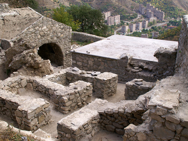 Remains of the old settlement of Halidzor overlooking the modern city of Kapan.